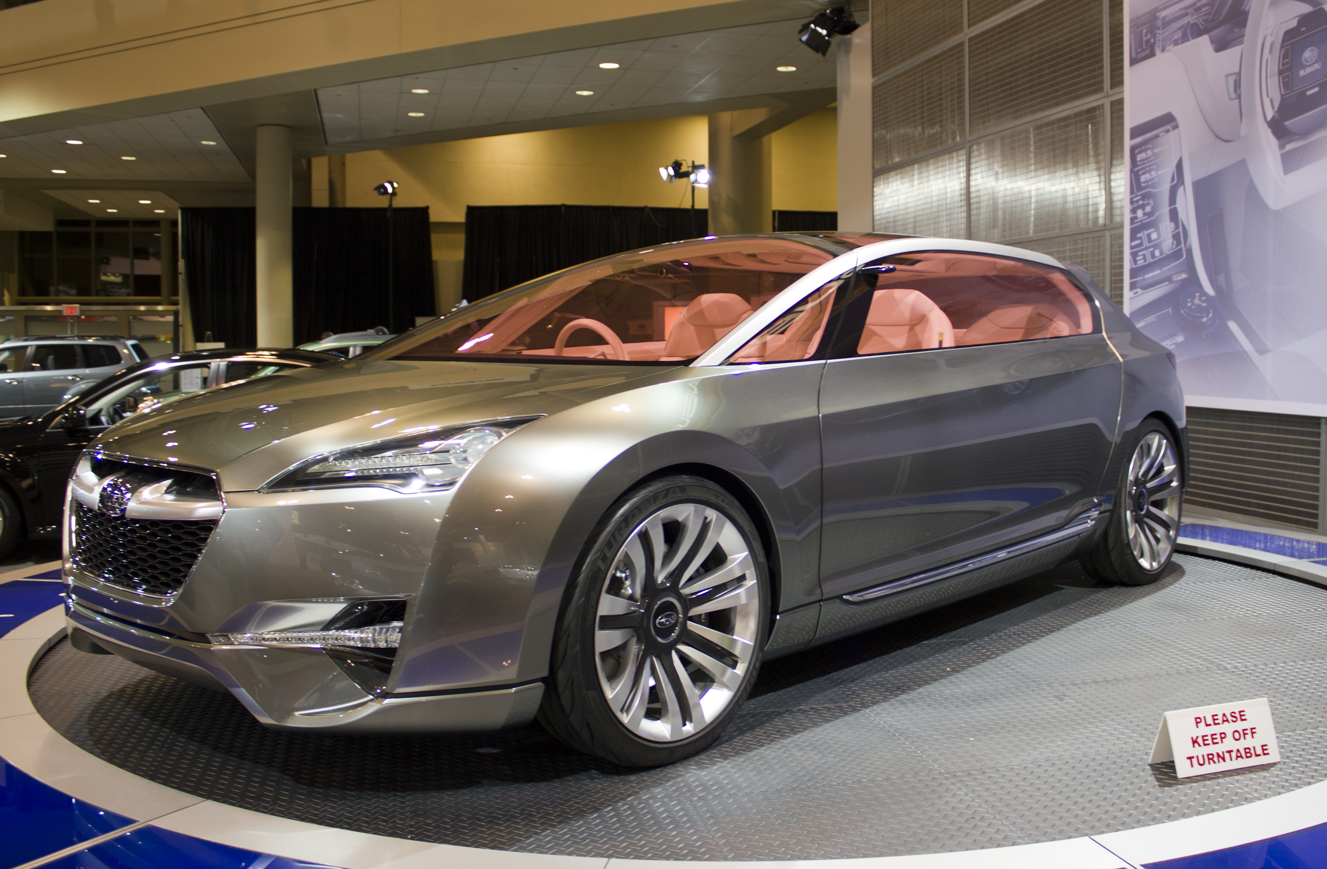 Taken at the 2011 Canadian International Auto Show